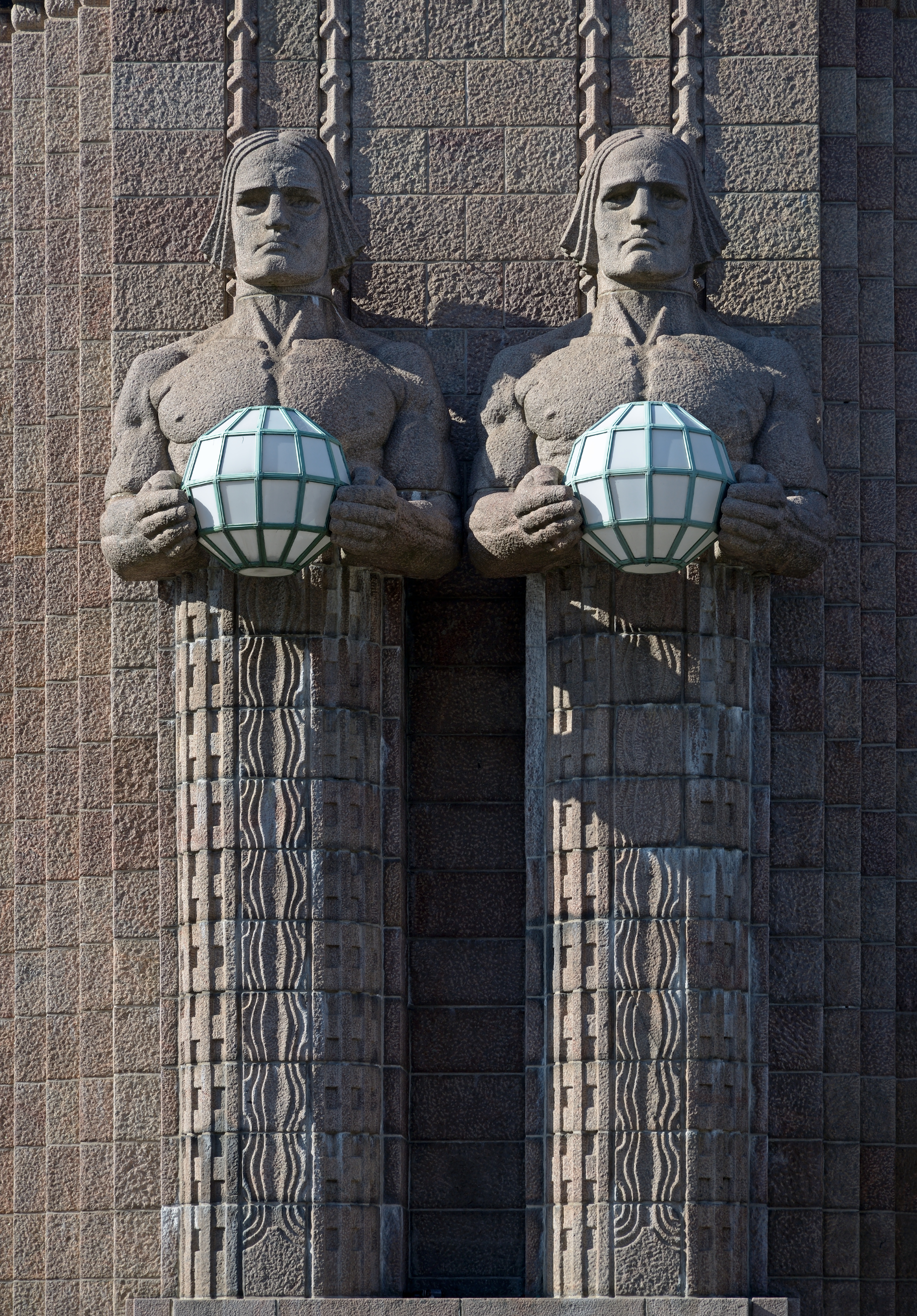 Granite figures with lamps near the entrance (from the west side) to the Helsinki Central Station. Sculptor Emil Wikström, 1914.